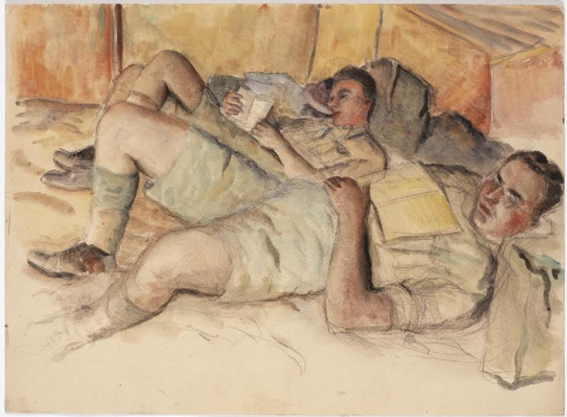 Siesta, 1943 image: two soldiers lie side by side on the floor of a tent with their heads resting on khaki bags. Both are wearing dessert gear. The soldier furthest away is reading, but the man nearest the artist has fallen asleep with his book resting on his chest.